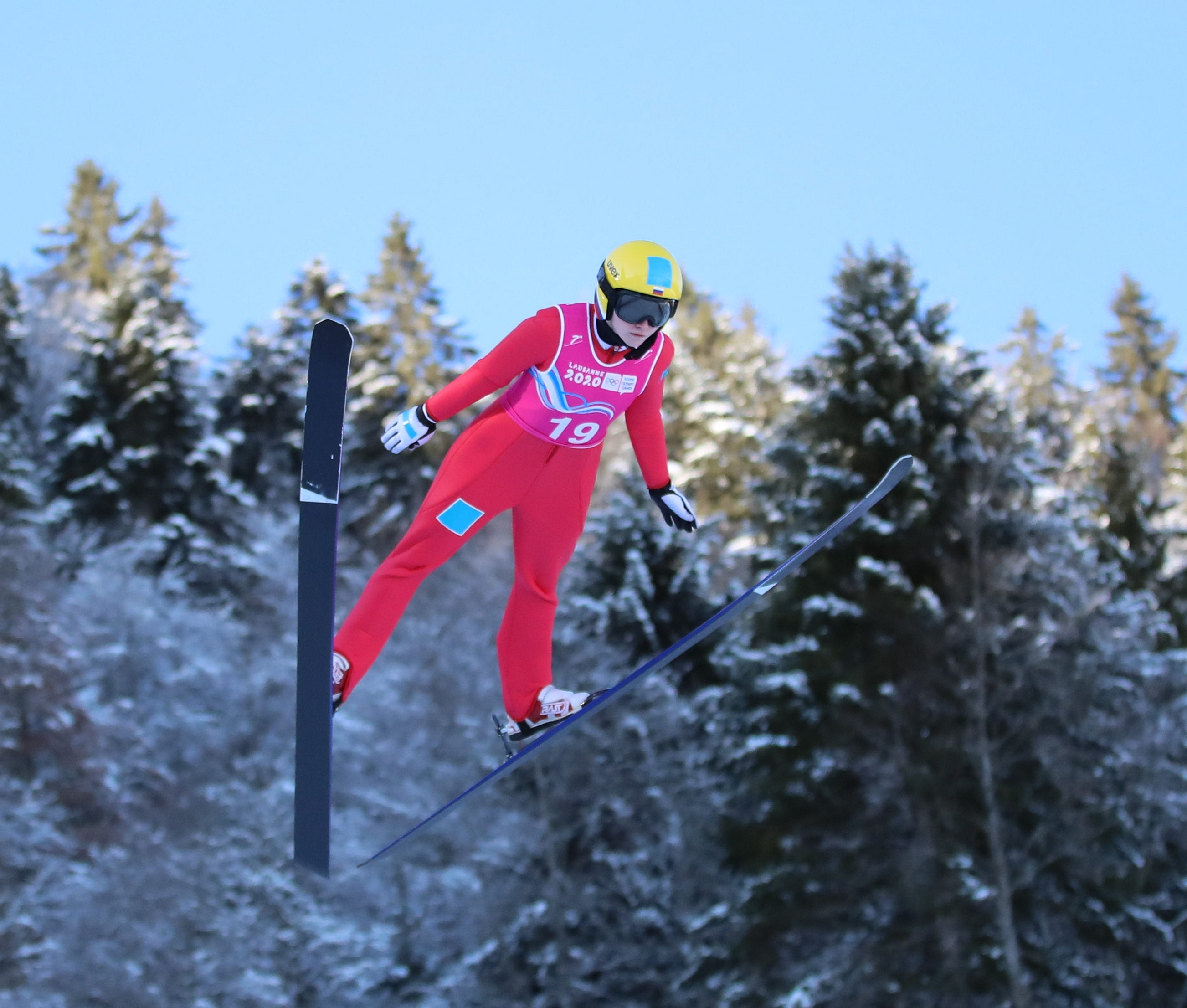 1st Round of Ski jumping – Women's Individual at the 2020 Winter Youth Olympics in Lausanne on 19 January 2020.